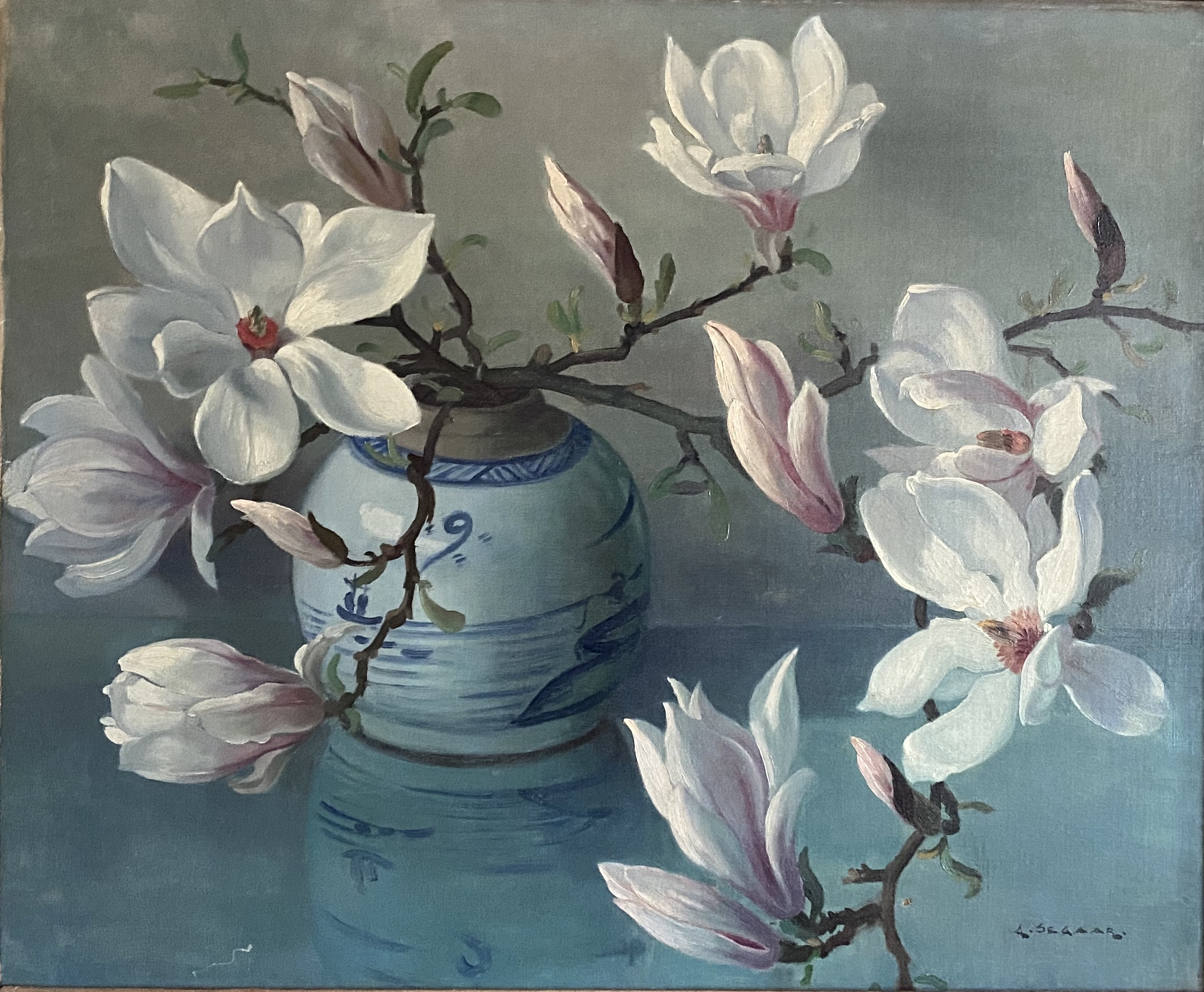 Painting by Abraham Segaar with magnolia blossom in a vase.